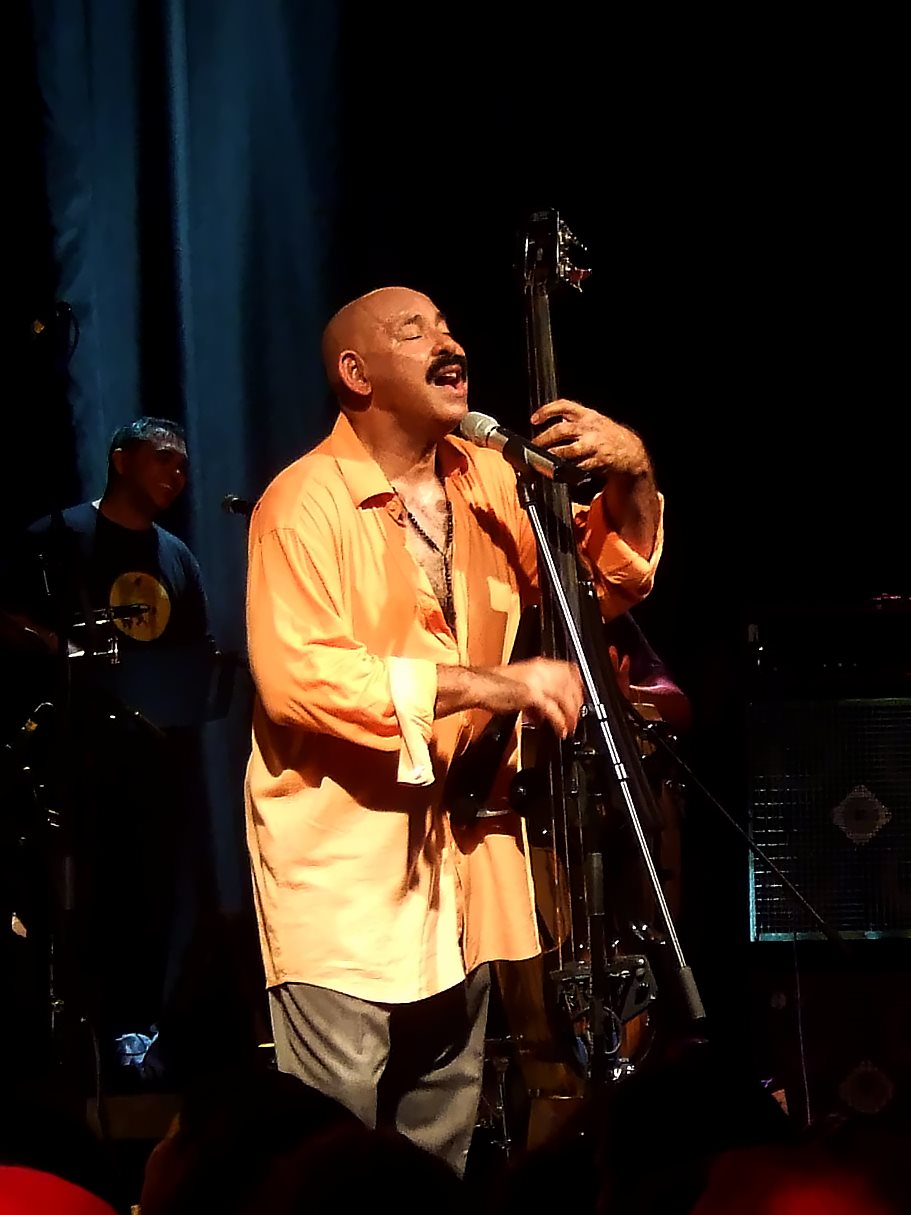 Oscar D'León during a concert in Darmstadt (Germany)